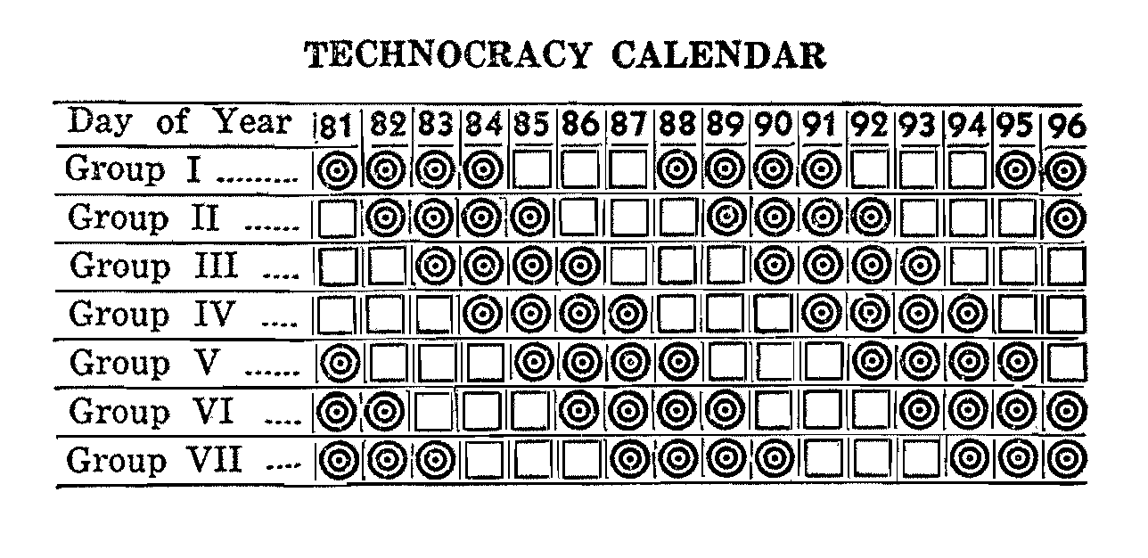 Technocracy Movement work schedule. Citizens are to work a 4-day week and are to be divided into 7 groups, each of which starts its work week on a different day. Bullseyes represent work days; squares represent rest days.